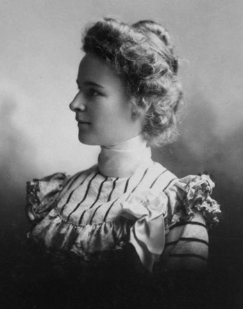 Amelia (Amy) Elizabeth Du Pont (1875-1962)